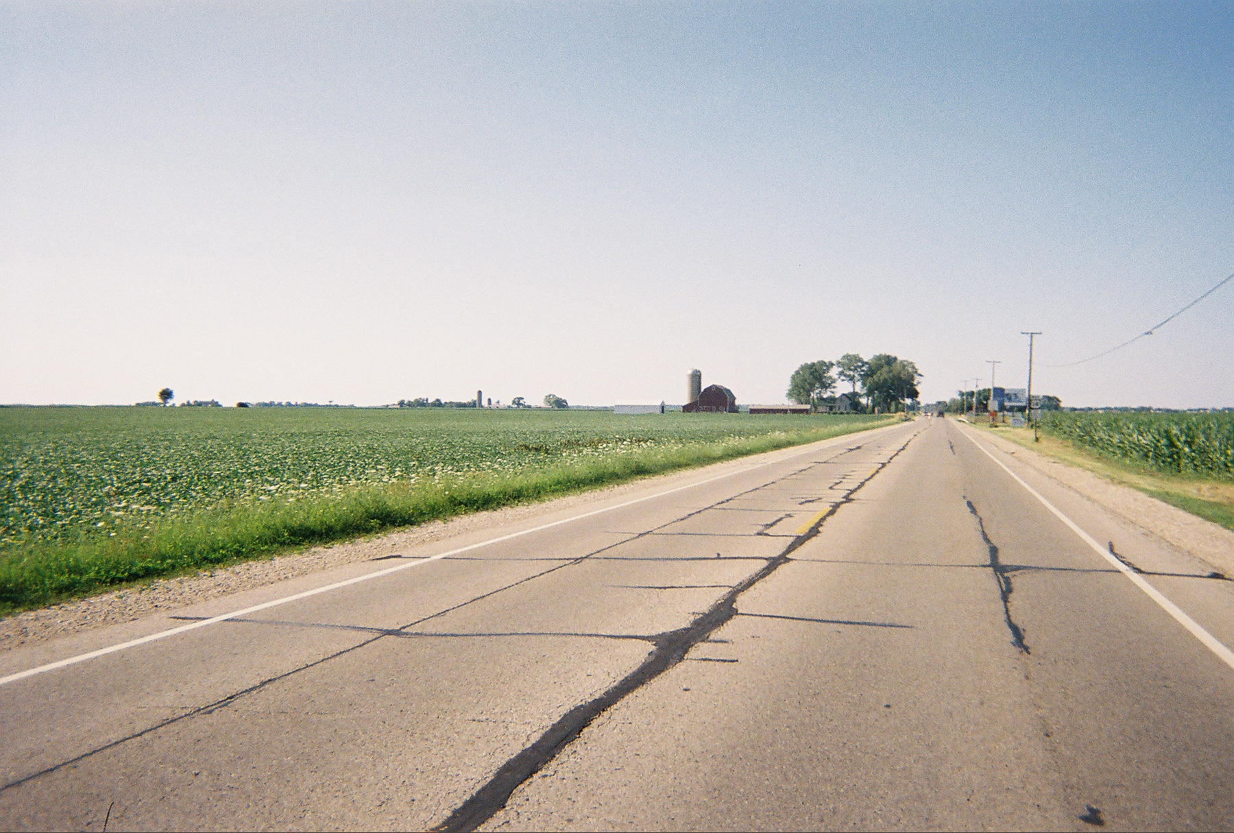 US Route 14 At The Illinois/Wisconsin State line near Big Foot Prairie, Illinois and Wisconsin. (Photo By BillboardMister)